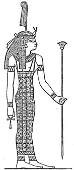 Egyptian god Mat